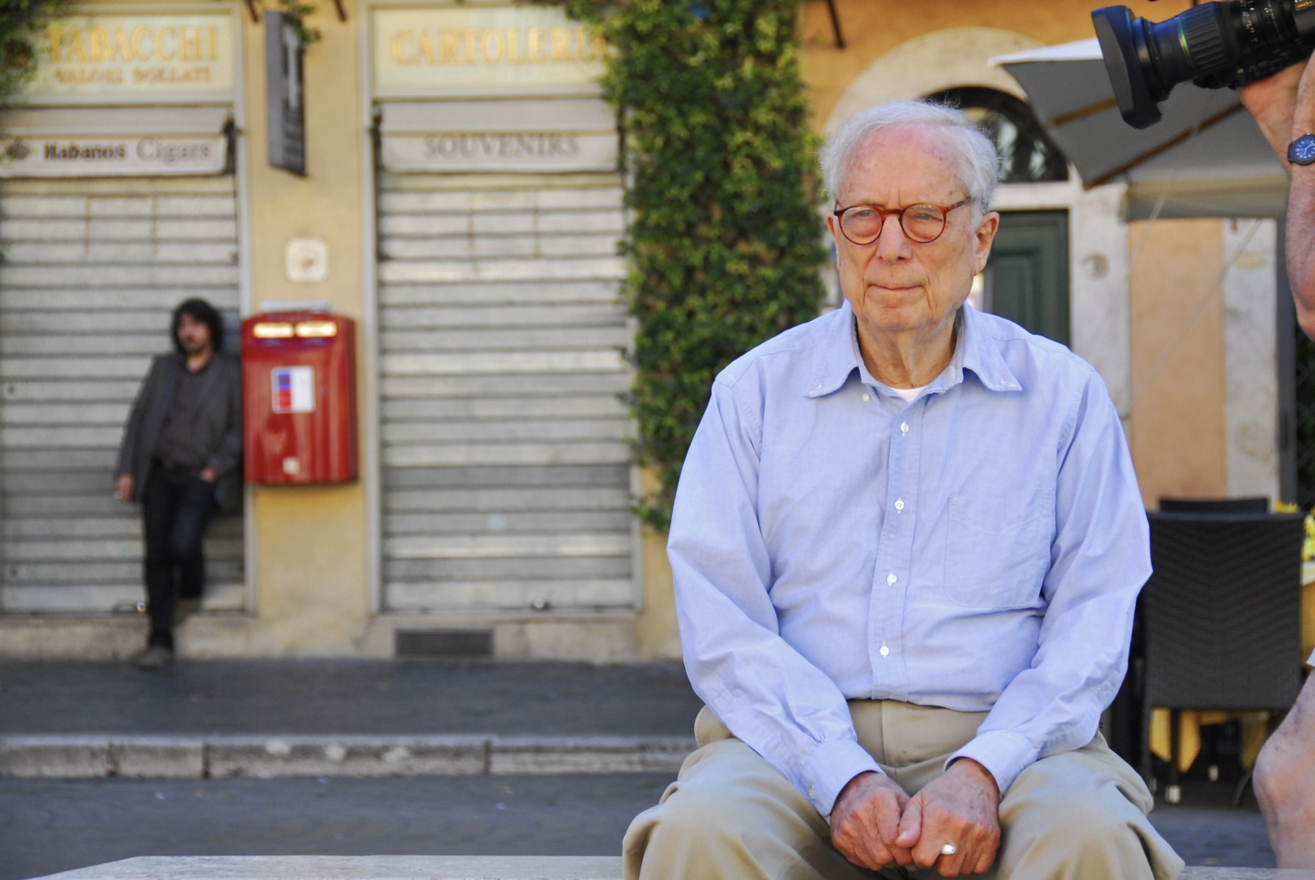 Robert Venturi, Rome, 2008